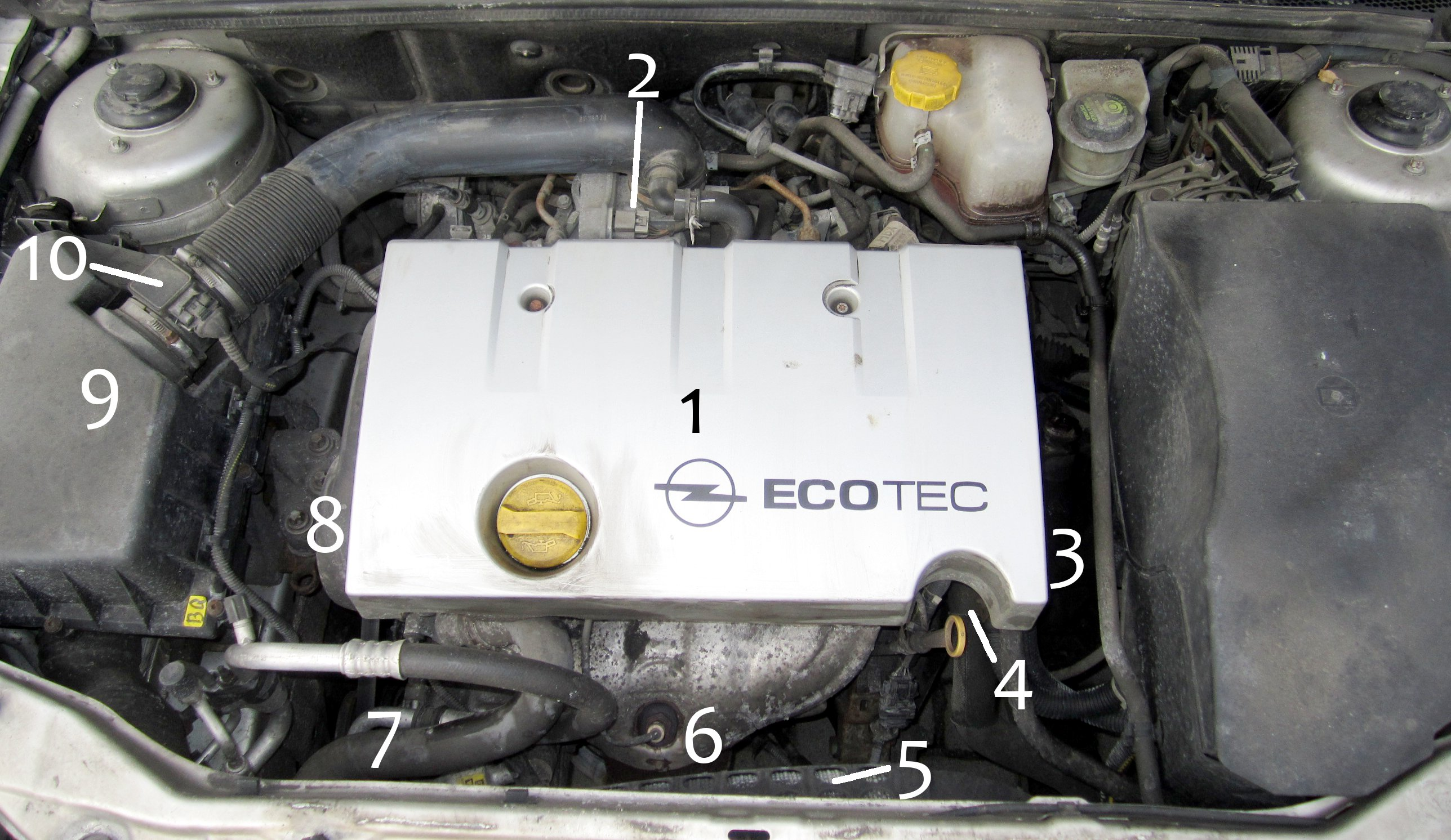 Opel motor type Z18XE